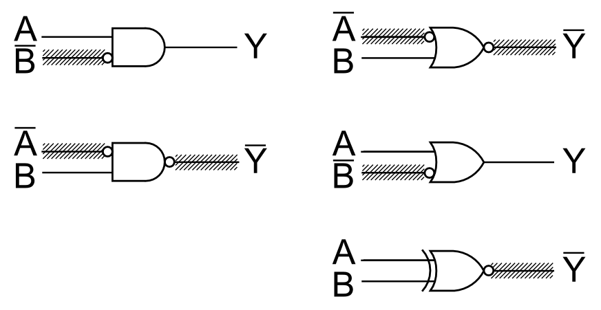 Negative-Positive Logic (5 gates)